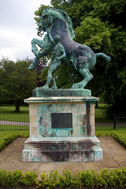 The Horse and his Master by Joseph Boehm in Malvern Park, Solihull, England. Originally exhibited at The Royal Academy in 1874. Also titled "A Clydesdale Stallion Rearing" At Paris expo 1878.